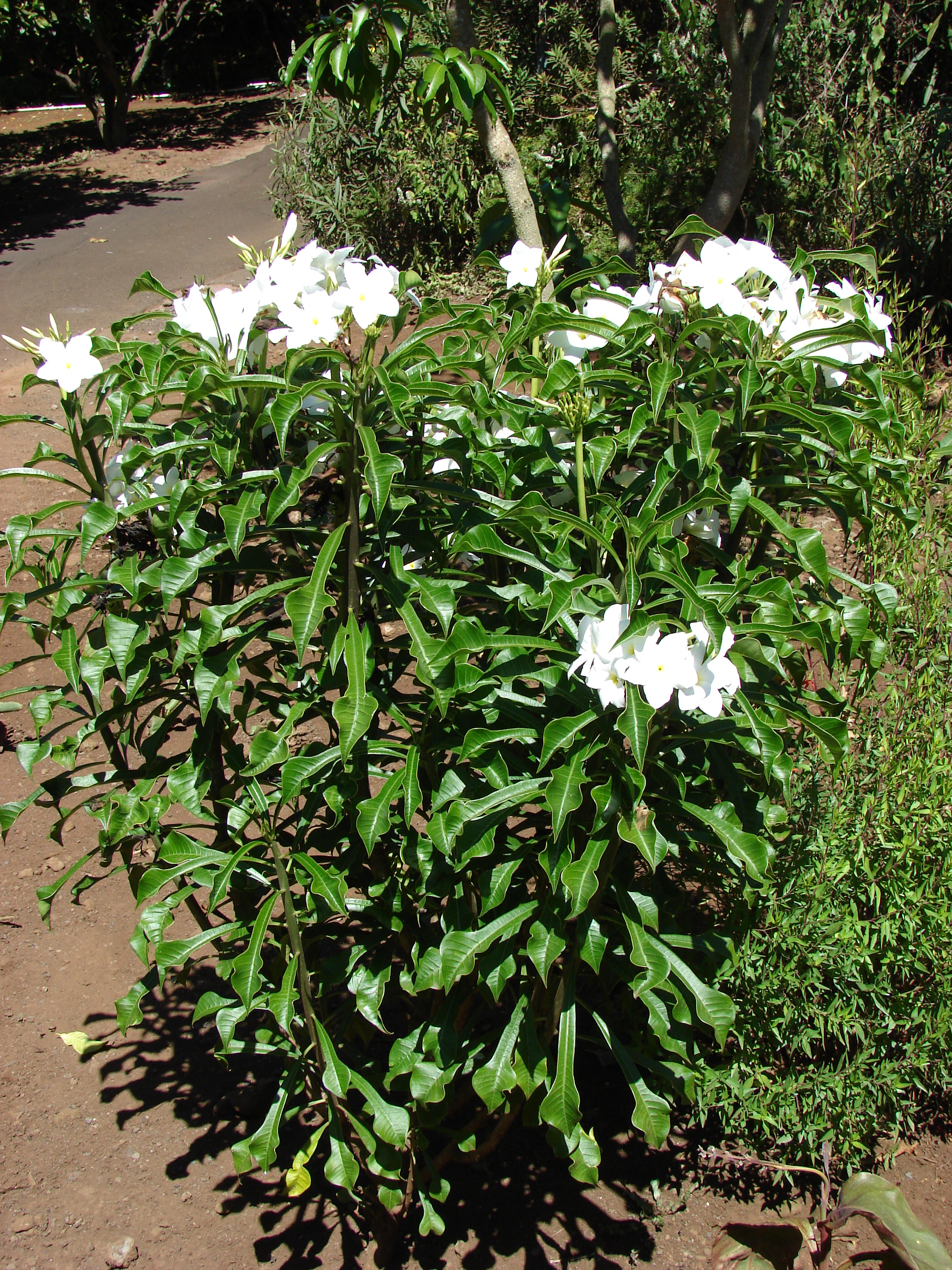 Plumeria pudica (flowering habit). Location: Maui, Enchanting Floral Gardens of Kula